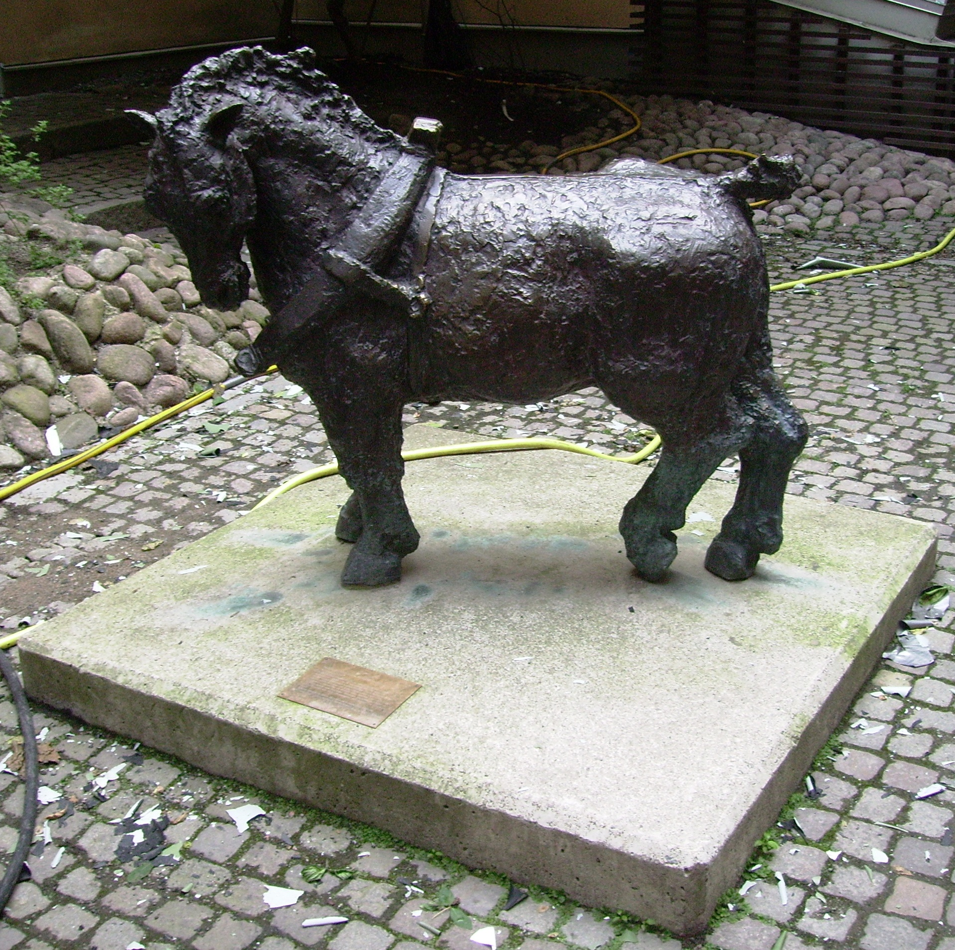 Picture of Avselad kamp, monument in Stockholm made by Marylyn Gierow 1992.